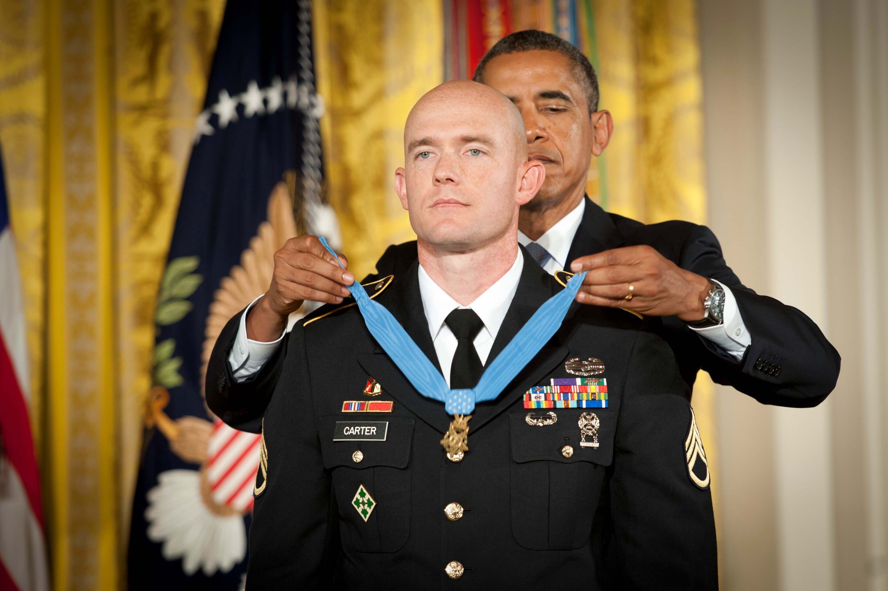 U.S. President Barack Obama awarding Medal of Honor to Ty Carter